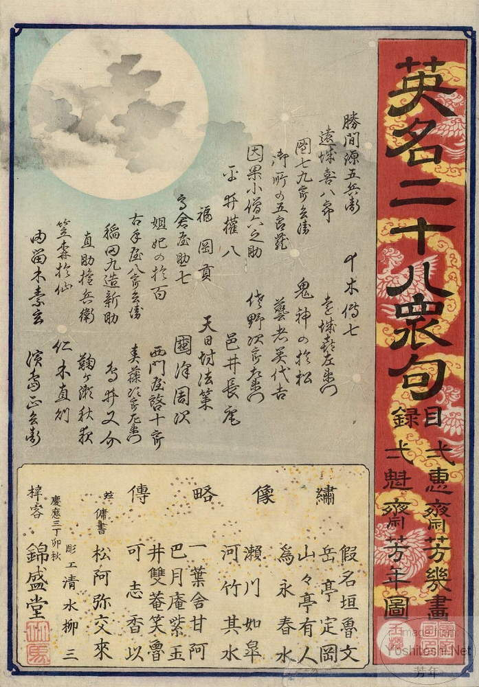 Eimei nijūhasshūku (英名二十八 衆句 - 28 Famous Murders with Verse)